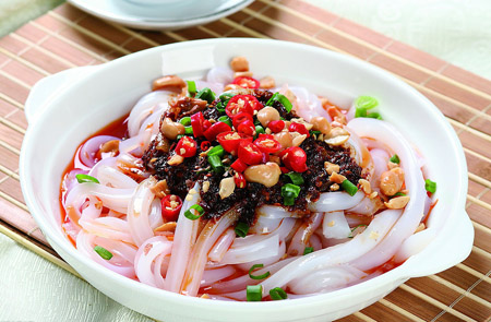 Tibetan Street food, usually found in Lhasa, Some major City, can also be found in Area Tibetan people living in Nepal and India.